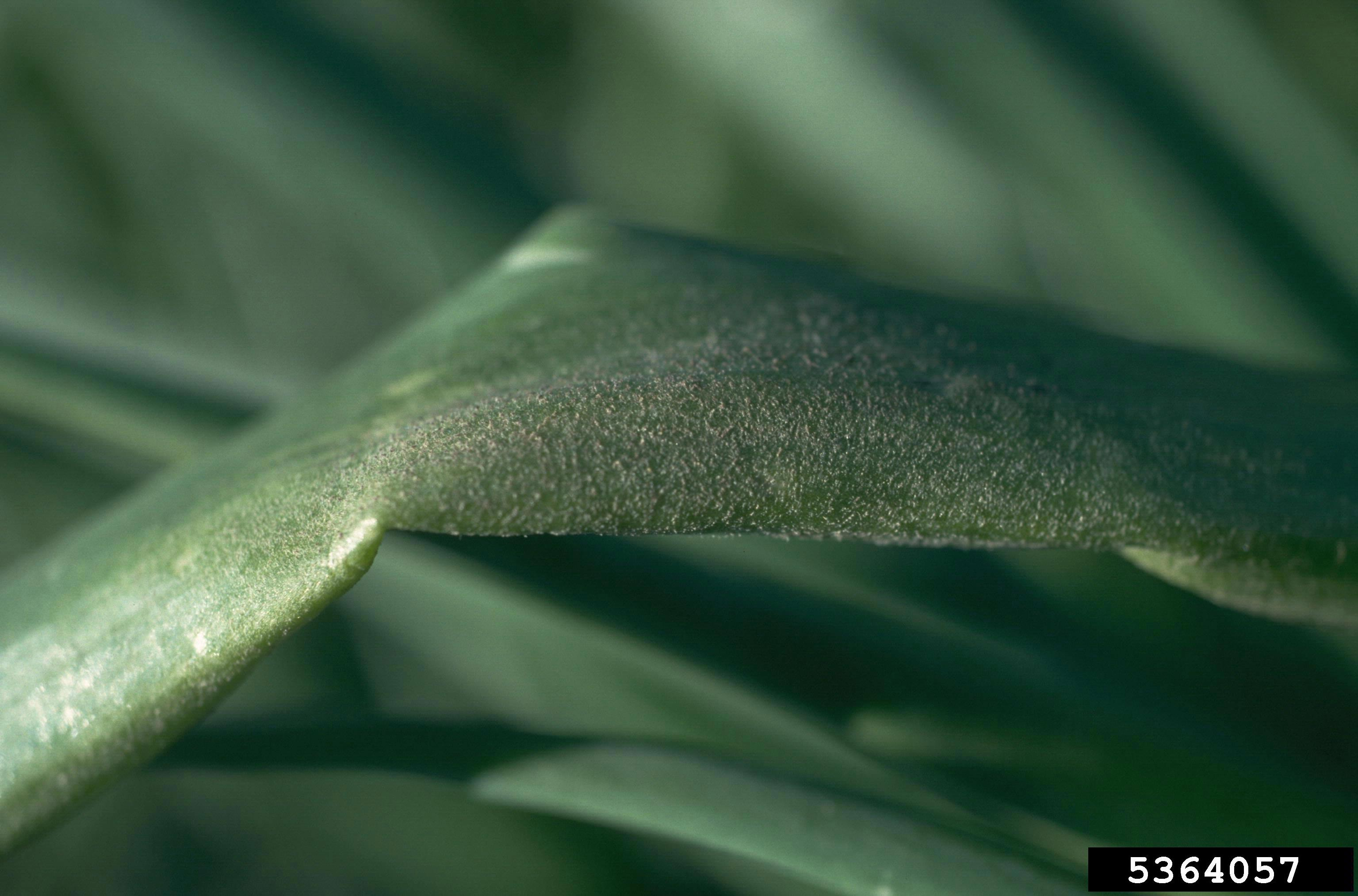 A close-up shot of downy mildew Peronospora destructor on an onion leaf.